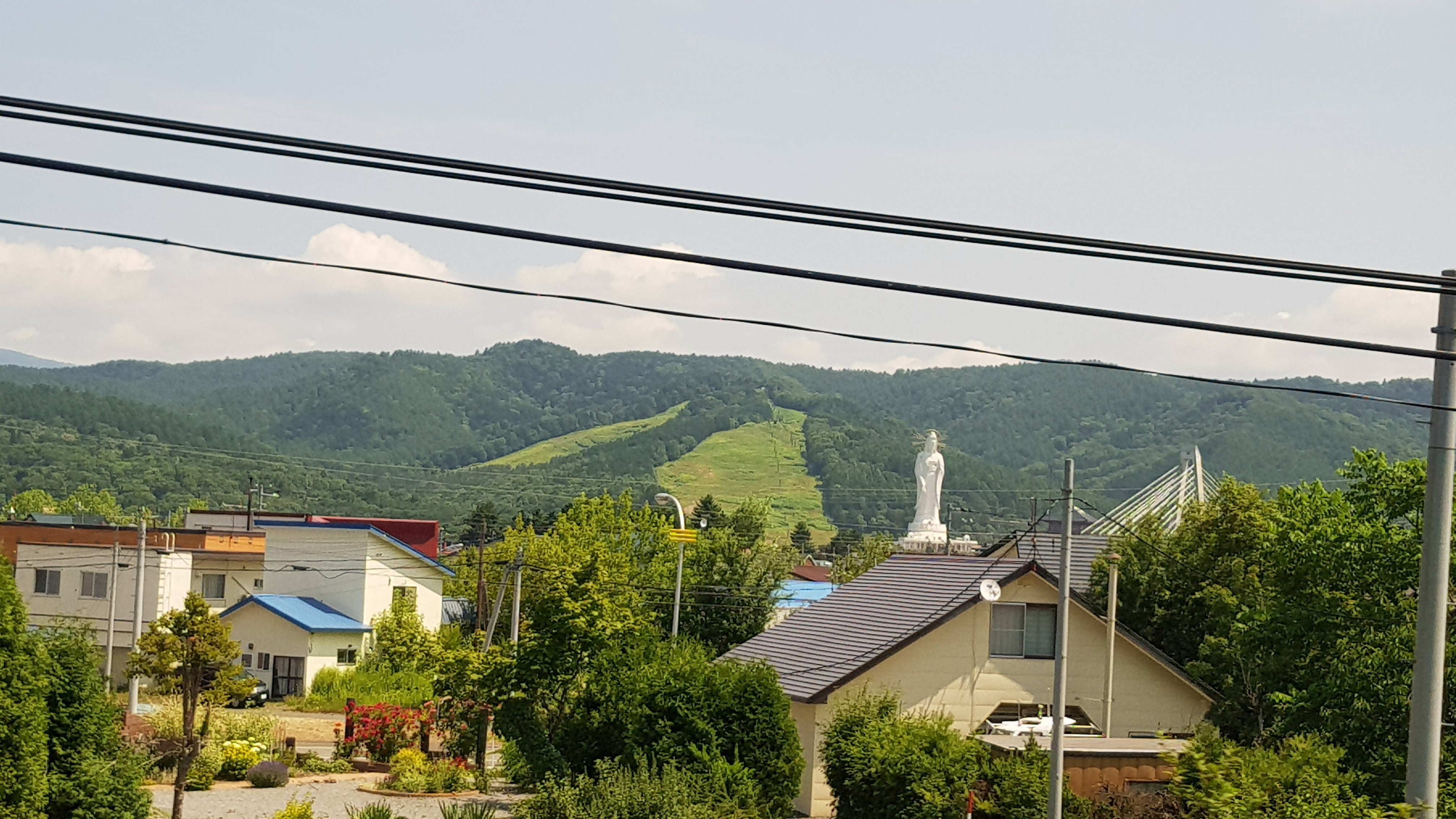 Hokkaido Dai Kannon in Ashibetsu city